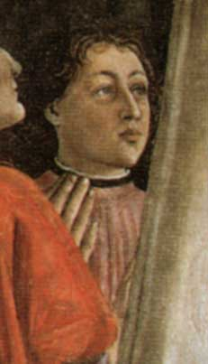 Detail depicting a young member of the Vespucci family. Identified by Giorgio Vasari with Amerigo Vespucci, it is more likely Jacopo Vespucci, a brother of Amerigo's father who died at age 18.